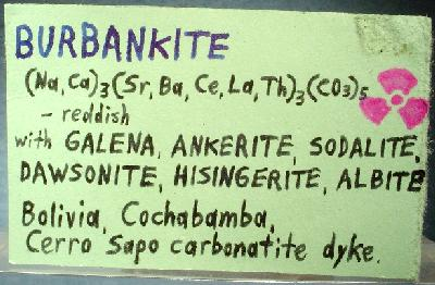 Burbankite, Sodalite, Galena Locality: Cerro Sapo, Ayopaya Province, Cochabamba Department, Bolivia (Locality at ) Size: 5.1 x 4.3 x 4.0 cm. The Cerro Sapo area (the following is quoted from MINDAT) "is one of the few alkaline provinces in the Andes. The interesting minerals are from a large dike, 2km long, 1 - 5m wide, of pegmatitic ankerite-sodalite-barite carbonatite, which cuts a nepheline syenite intrusion and the surrounding hornfels and slate. Source of all the sodalite beads found in Inca and pre-Inca ruins ranging from Quito (Ecuador) to Tucuman (Argentina)." The mostly albite matrix is highlighted by blue sodalite and metallic-bright galena crystals, but this excellent combination specimen also contains the rare cerium carbonate, burbankite (reddish), plus brown ankerite and dawsonite and white hisingerite. Very representative and rare combination material from this uncommon locale. Ex. Wes Parker Collection.